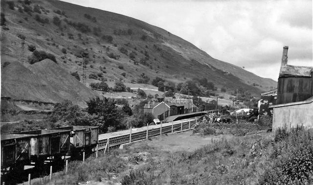 Britannia Halt (remains). [renamed Bournville (Mon) Halt 30 October 1933 closed 30 April 1962] View NW, towards Brynmawr; ex-GWR Newport - Aberbeeg - Brynmawr line. This Halt, called Tyler's Arms until 1933, was between Abertillery and Blaina and was closed on 30/4/62, when the passenger service on the branch ceased; the line was used for coal traffic until 30/7/78.